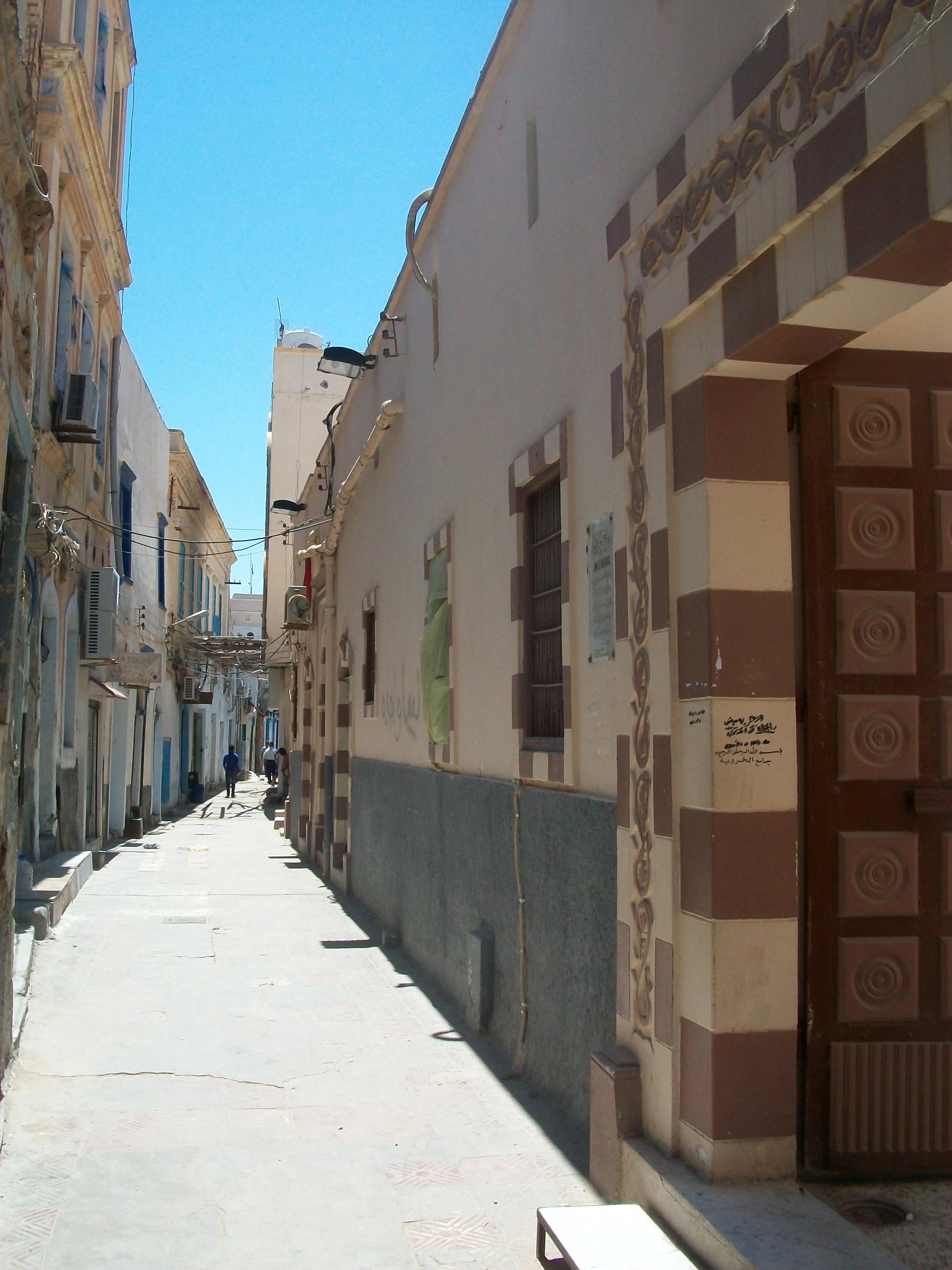 Kharruba Mosque on Fnaydga Street in the medina of Libya's capital Tripoli.